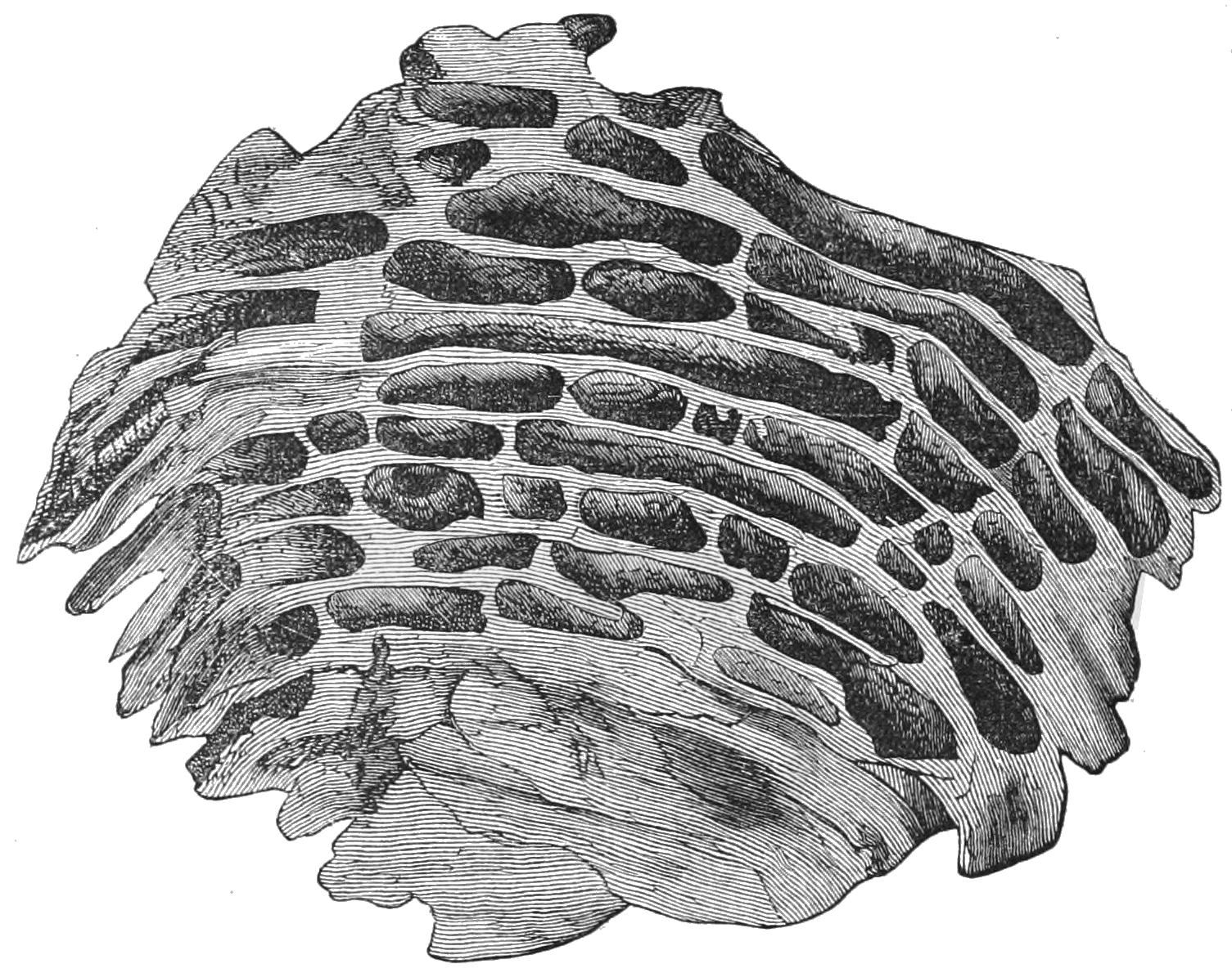 Galleries of termite nests